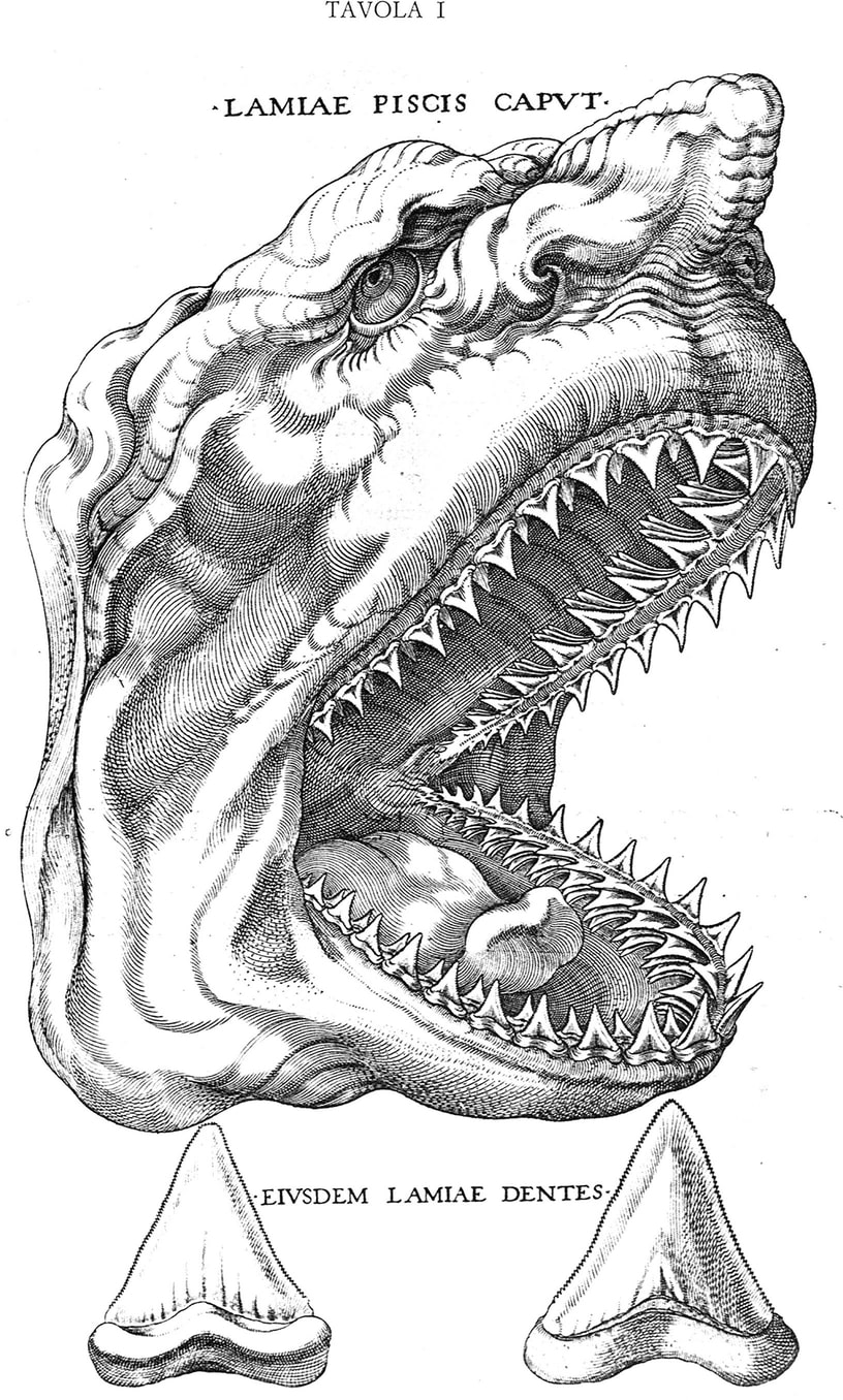 White shark and shark teeth from Steno's Elementorum myologiæ specimen, seu musculi descriptio geometrica : cui accedunt Canis Carchariæ dissectum caput, et dissectus piscis ex Canum genere